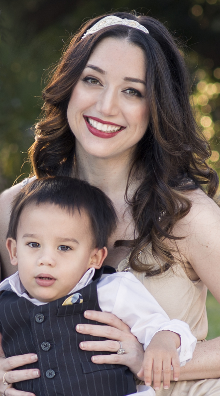 Image of artist Elise Ippolito